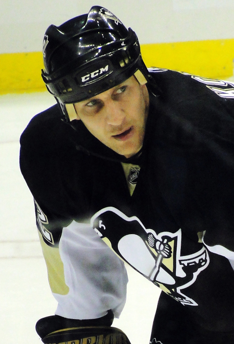 Alexei Kovalev during a 1st round playoff game between the Pittsburgh Penguins and Tampa Bay Lightning at Consol Energy Center in Pittsburgh, PA. April 23, 2011.